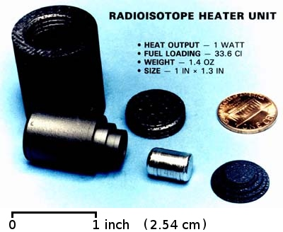 The parts of Radioisotope Heater Unit (RHU) in comparison with an US 1¢ coin